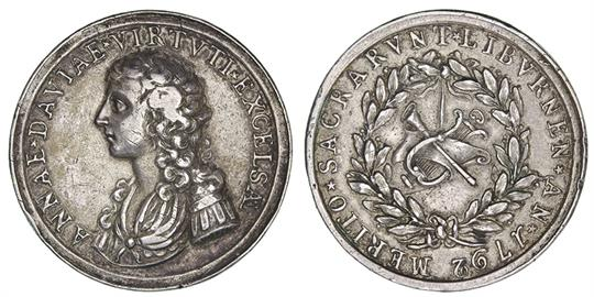 Anna Davia (1743-1810), Italian opera singer